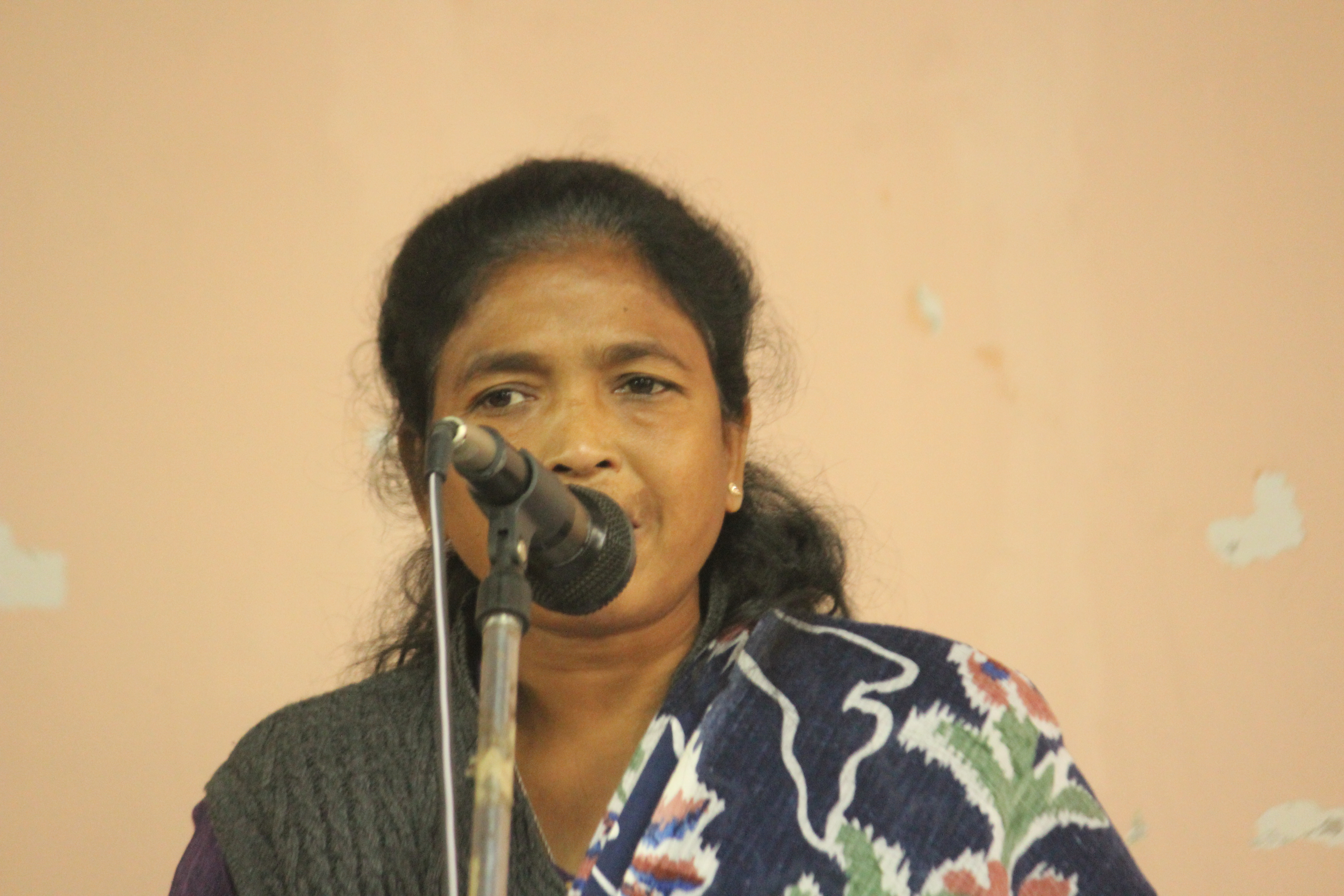 Soni Sori speaking at the Bhopal Jan Utsav 2017